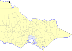 Location of the former City of Mildura within Victoria.